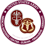 USAMMCE logo